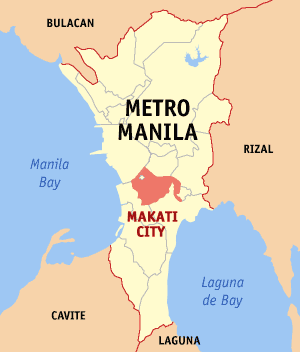 Map of Metro Manila showing the location of Makati